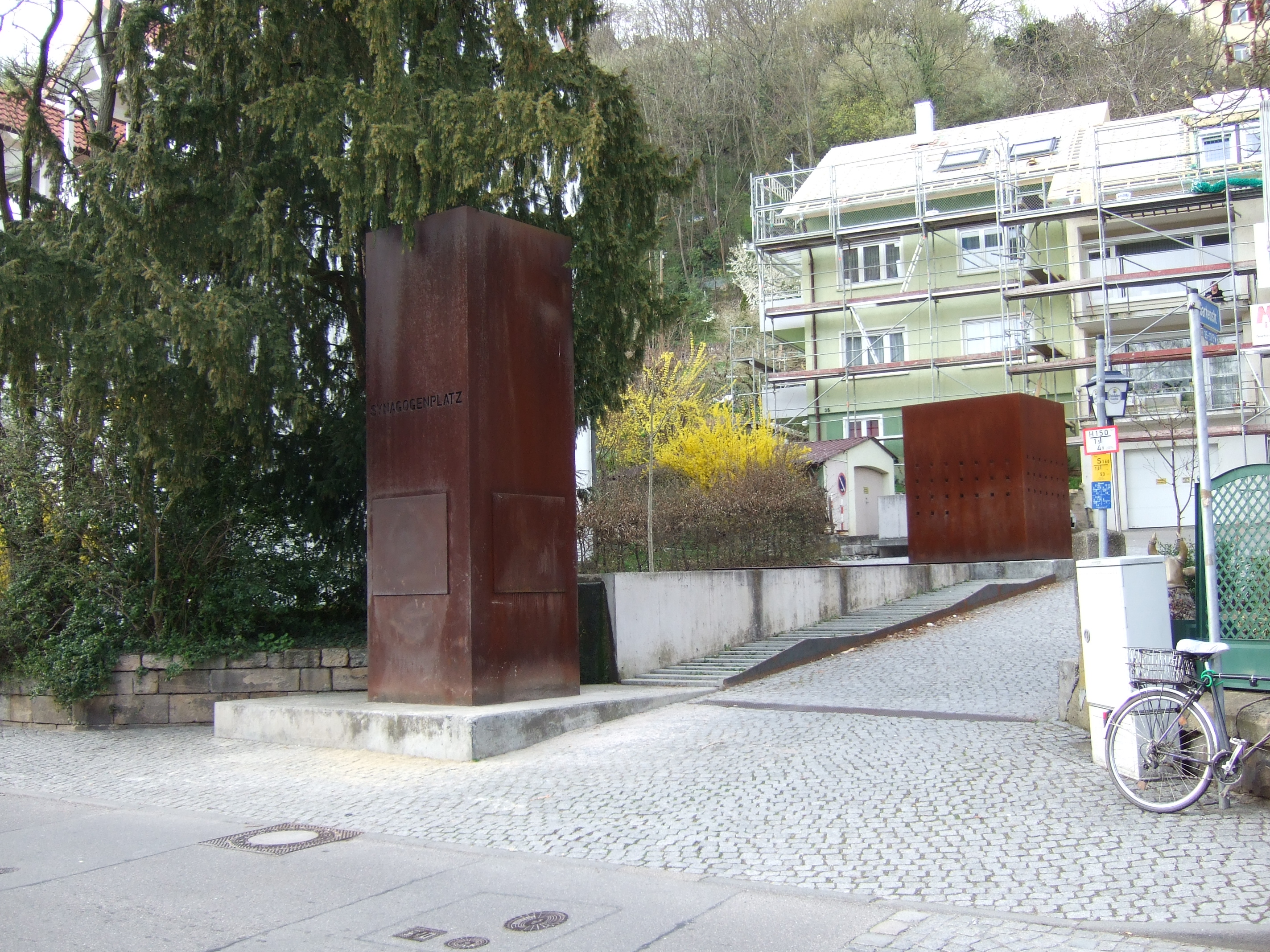 Place of the former synagogue of Tübingen